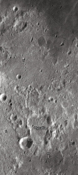 Hypatia lunar crater as seen from Earth with satellite craters labeled